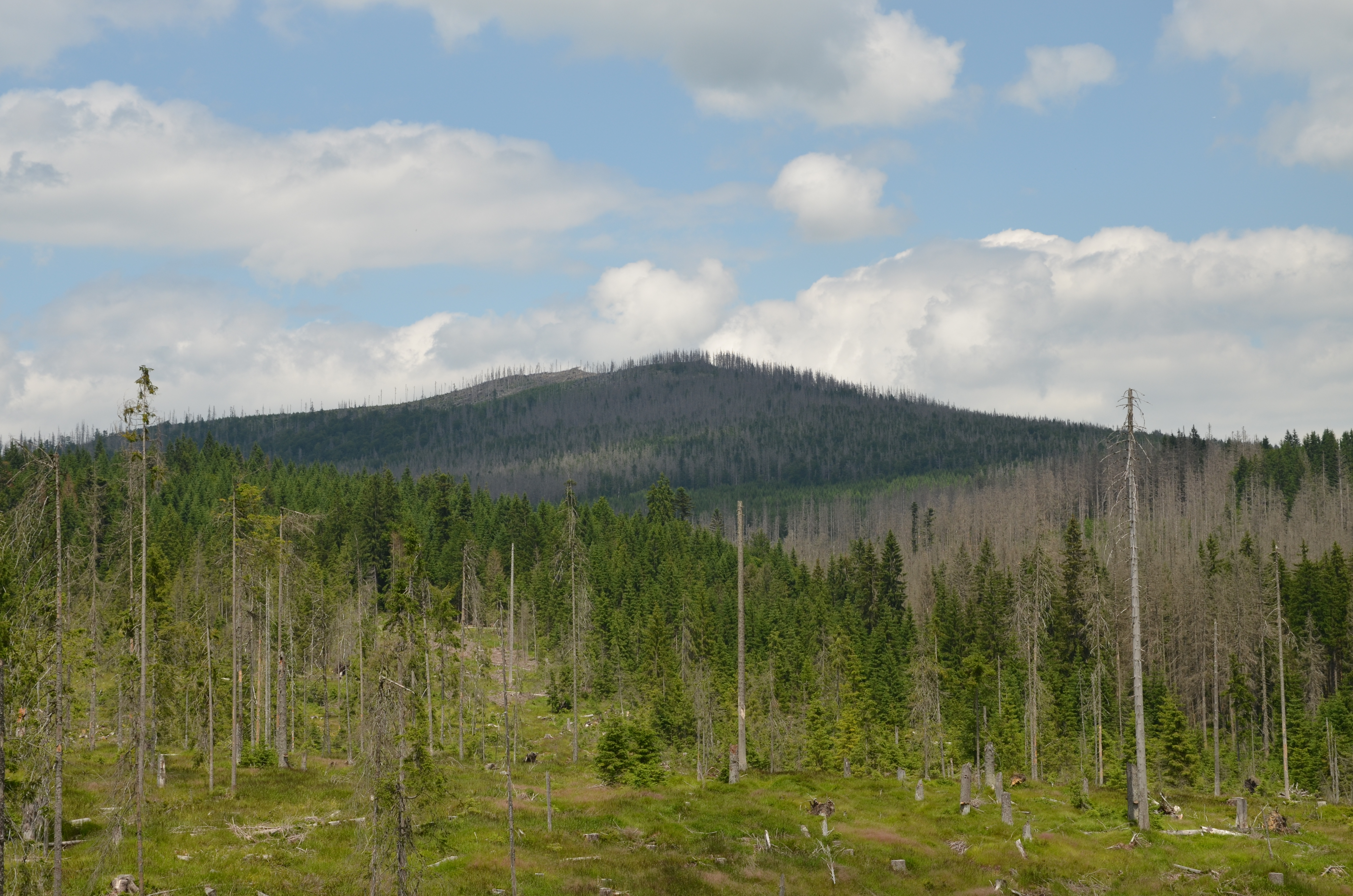 Ždánidla, 1309 m, Šumava